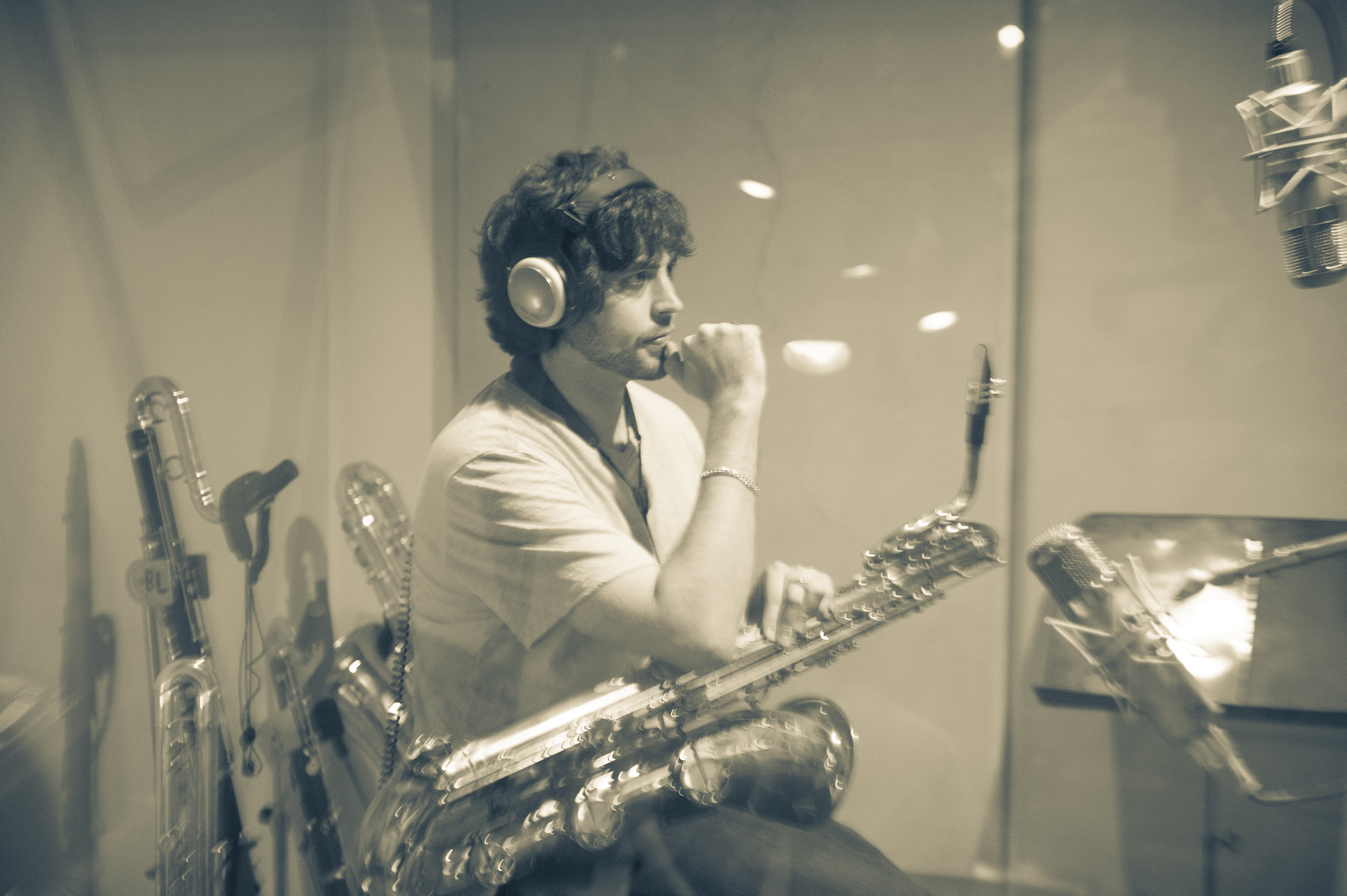 Brian Landrus at Sear Sound Recording Studio in New York City 2012. Photo by Aleks Karjaka